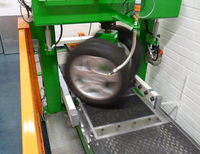 Aachener Rafeling Tester in the BAM Roads laboratory